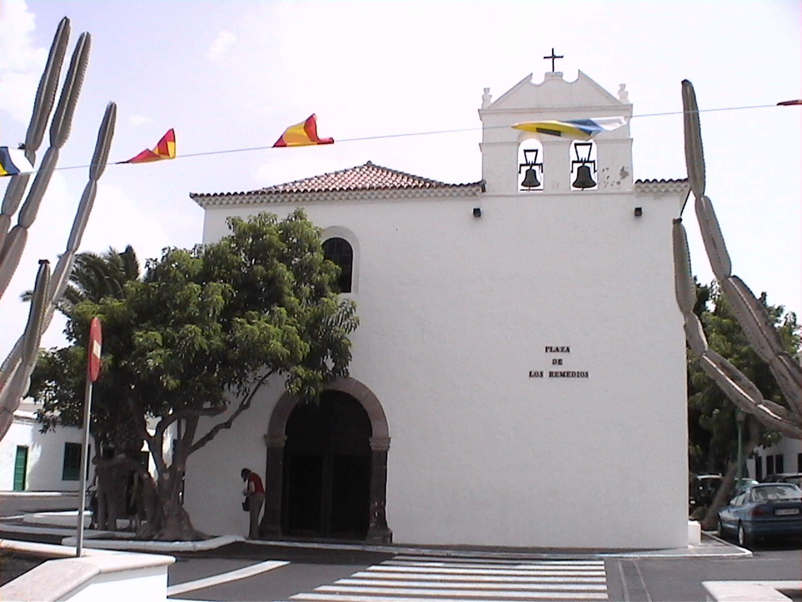 Church of Yaiza, Lanzarote - Nuestra Senora de los Remedios